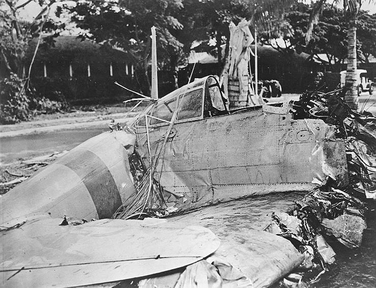 Japanese Type 00 Carrier Fighter ("Zero") that crashed at Fort Kamehameha, near Pearl Harbor, during the attack on Pearl Harbor December 7, 1941. This plane, which had tail code "A1-154" and a red band around its rear fuselage, came from the aircraft carrier Akagi.